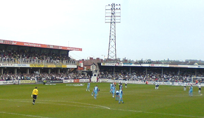 View of the home section of the Floors-2-Go (Len Weston) stand and the Meadow End at Edgar Street, Hereford - from the perspective of the Blackfriars Street End